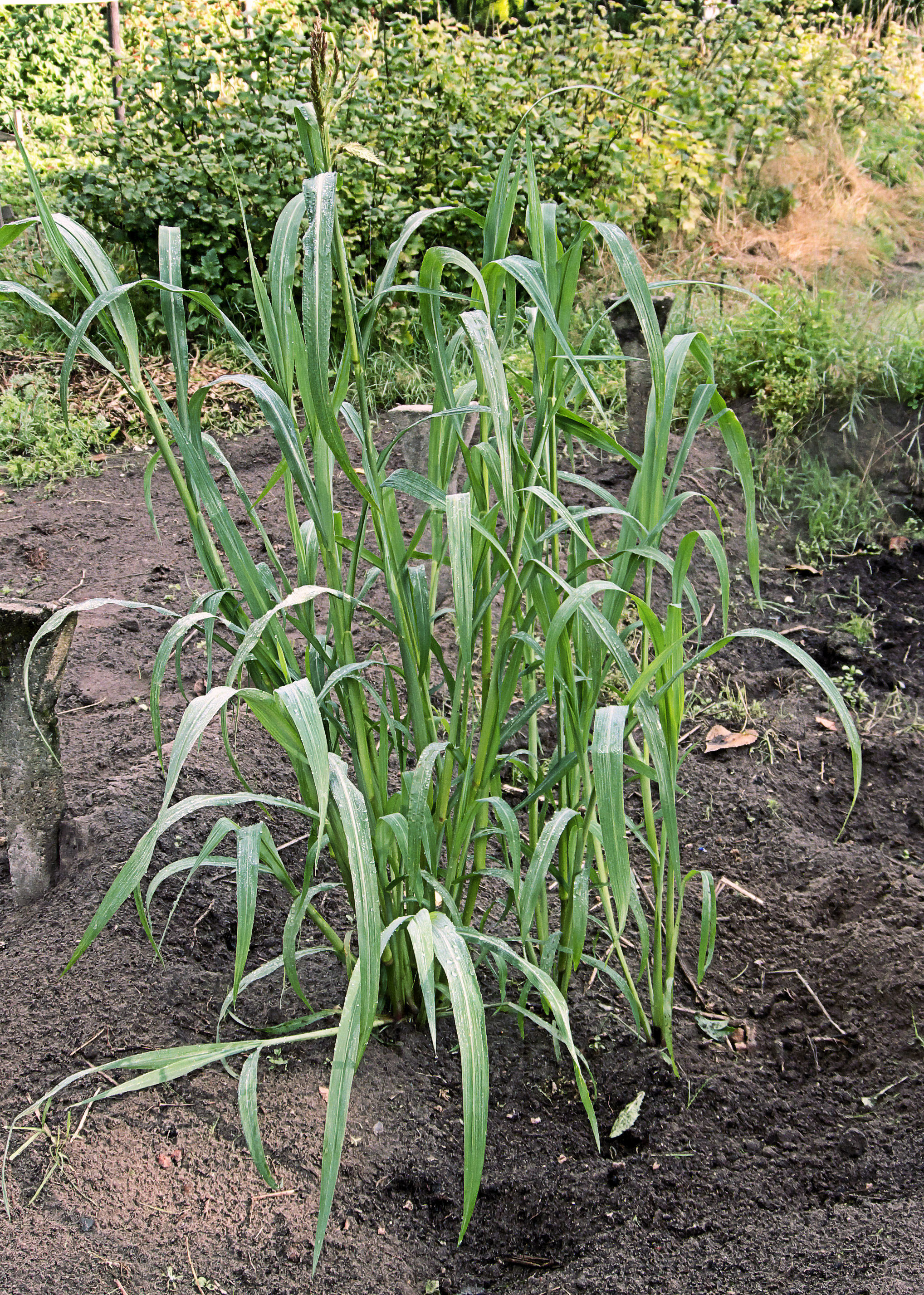 Echinochloa crus-galli